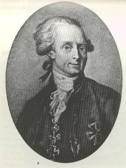 Karl von Zinzendorf (1739-1813) austrian statesman